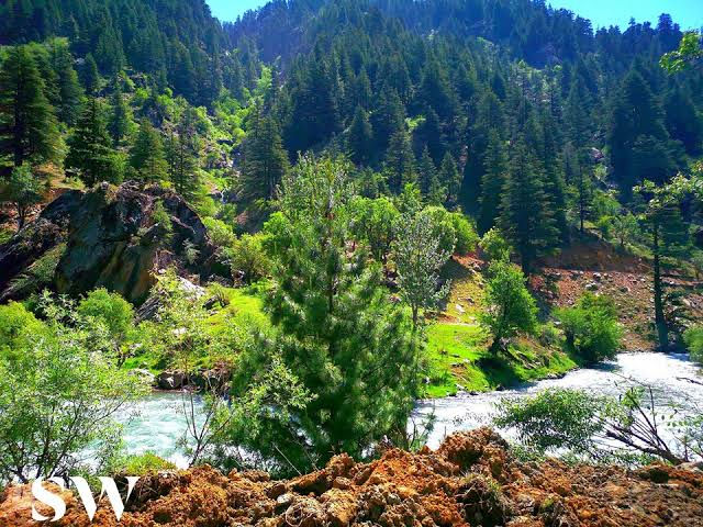 Nooristan